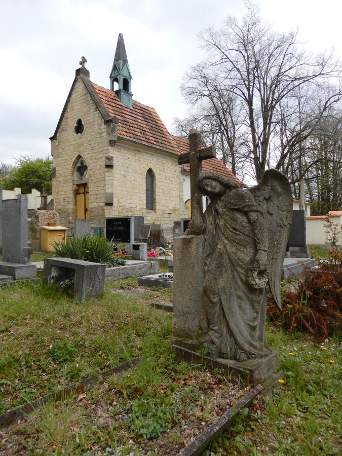 cemetery Ruzyně, St. Wenceslas chapel and funerary statue of angel with cross